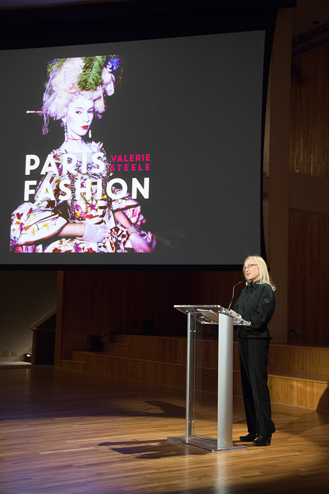 On October 17, 2017, Dr. Valerie Steele presented an in-depth look at the new edition of her book, "Paris Fashion: A Cultural History" at The Museum at FIT. Photo by Eileen Costa